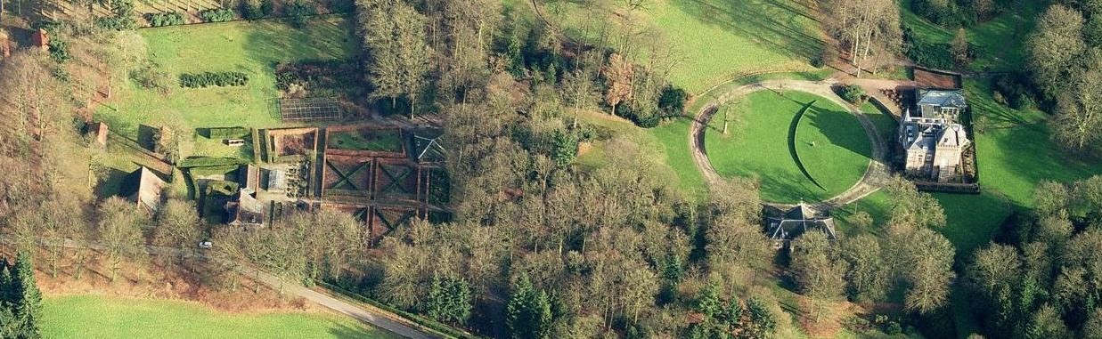 Prattenburg